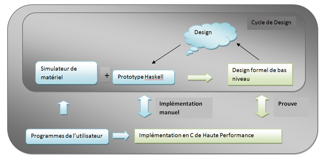 SeL4 design and rapid prototyping method